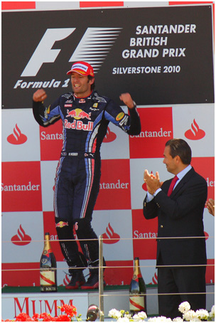 The fast paced race saw Mark Webber take victory ahead of Lewis Hamilton as the McLaren could not match the pace of the Red Bull-Renault car. Photographer: Adrian Hoskins.